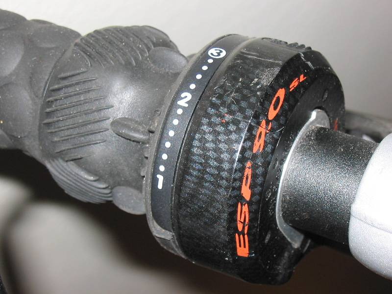 SRAM 9.0SL grip shifters